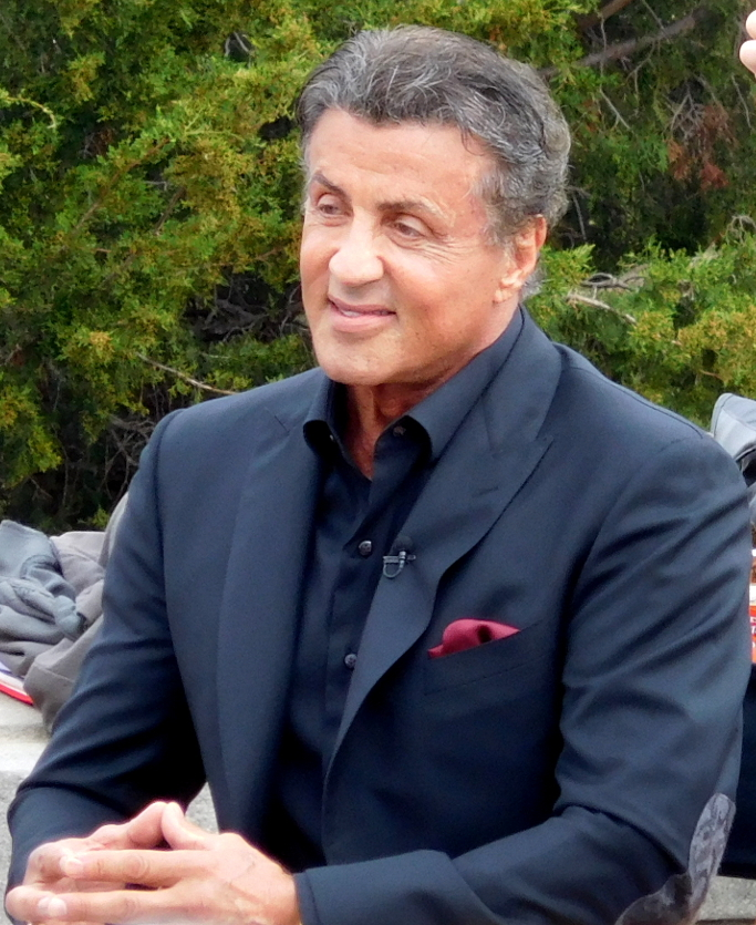 Sylvester Stallone, Tessa Thompson, and Michael B. Jordan promoting the movie Creed at the Philadelphia Art Museum in November 2015. This is immediately adjacent to the "Rocky Steps" made famous in the original Rocky movie.